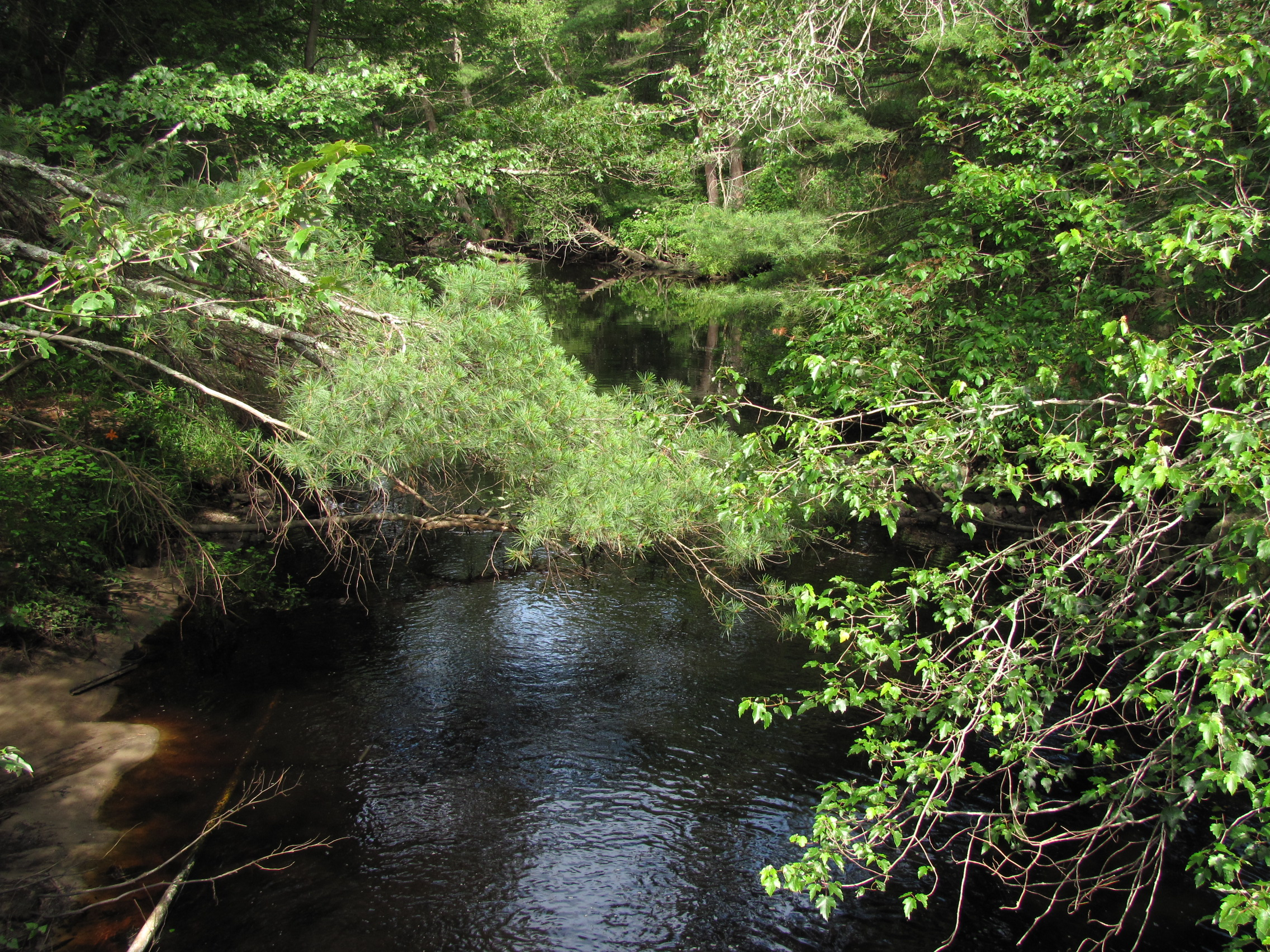 Sippican River, Wareham and Marion Massachusetts - downstream from County Road, the Sippican is the boundary between Wareham and Marion